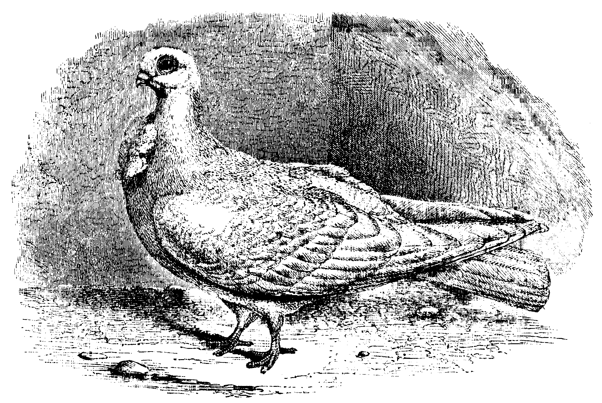 African Owl.